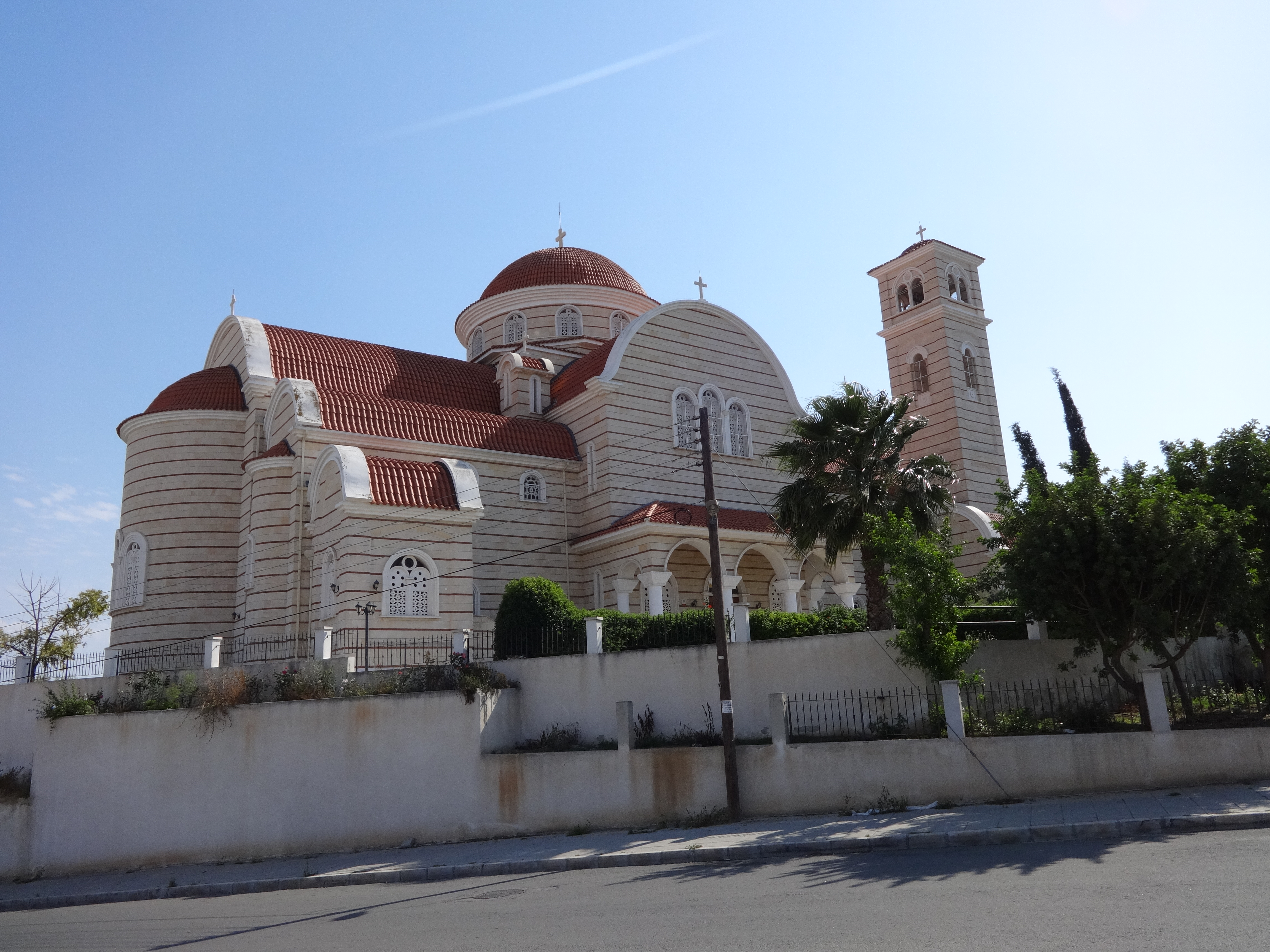 View of Ayios Panteleimon Church, Engomi, the main church of the Makedonitissa part of that borough. Engomi is one of the suburban boroughs of Nicosia, Cyprus